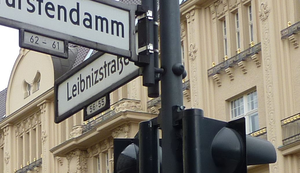 Leibnizstrasse street sign Berlin